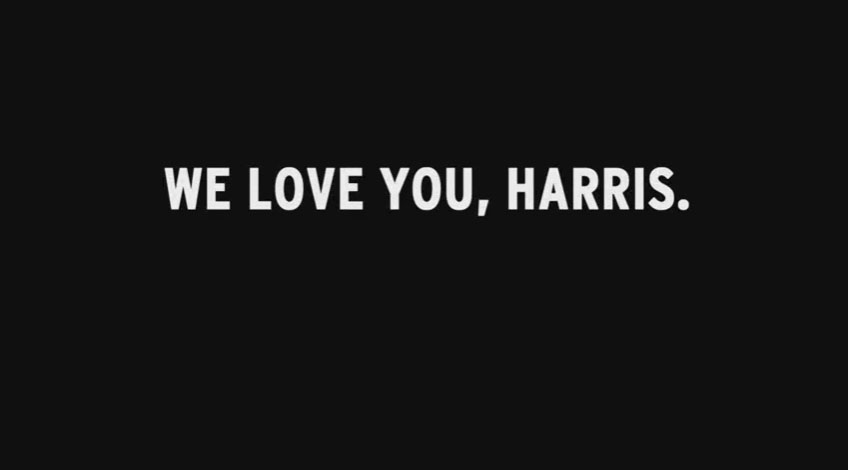 Parks and Recreation screenshot from series finale, dedicated to writer/actor Harris Wittels, who died a few days before it aired